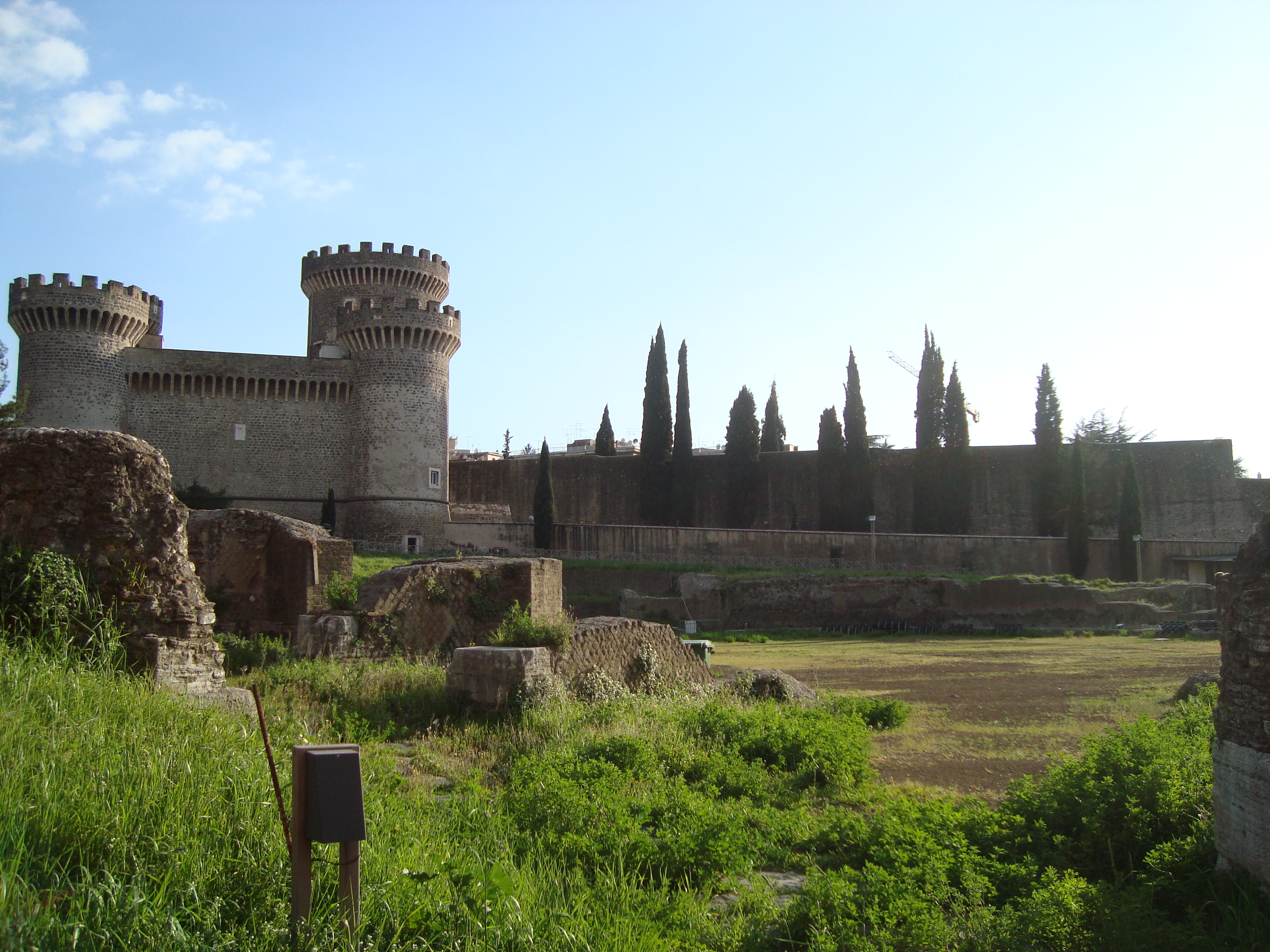 Rocca Pia and Bleso's amphitheatre in Tivoli